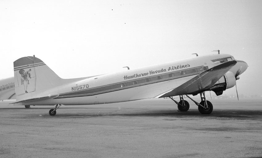 Hawthorne Nevada Airlines DC-3 (N15570) on a foggy morning at Long Beach, California on November 8, 1965.